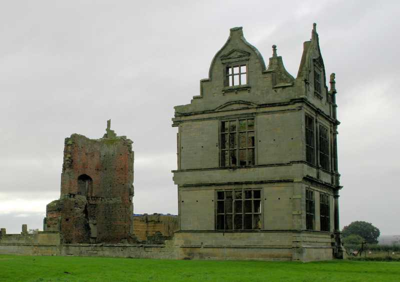 Moreton Corbet Castle (2nd Phase).